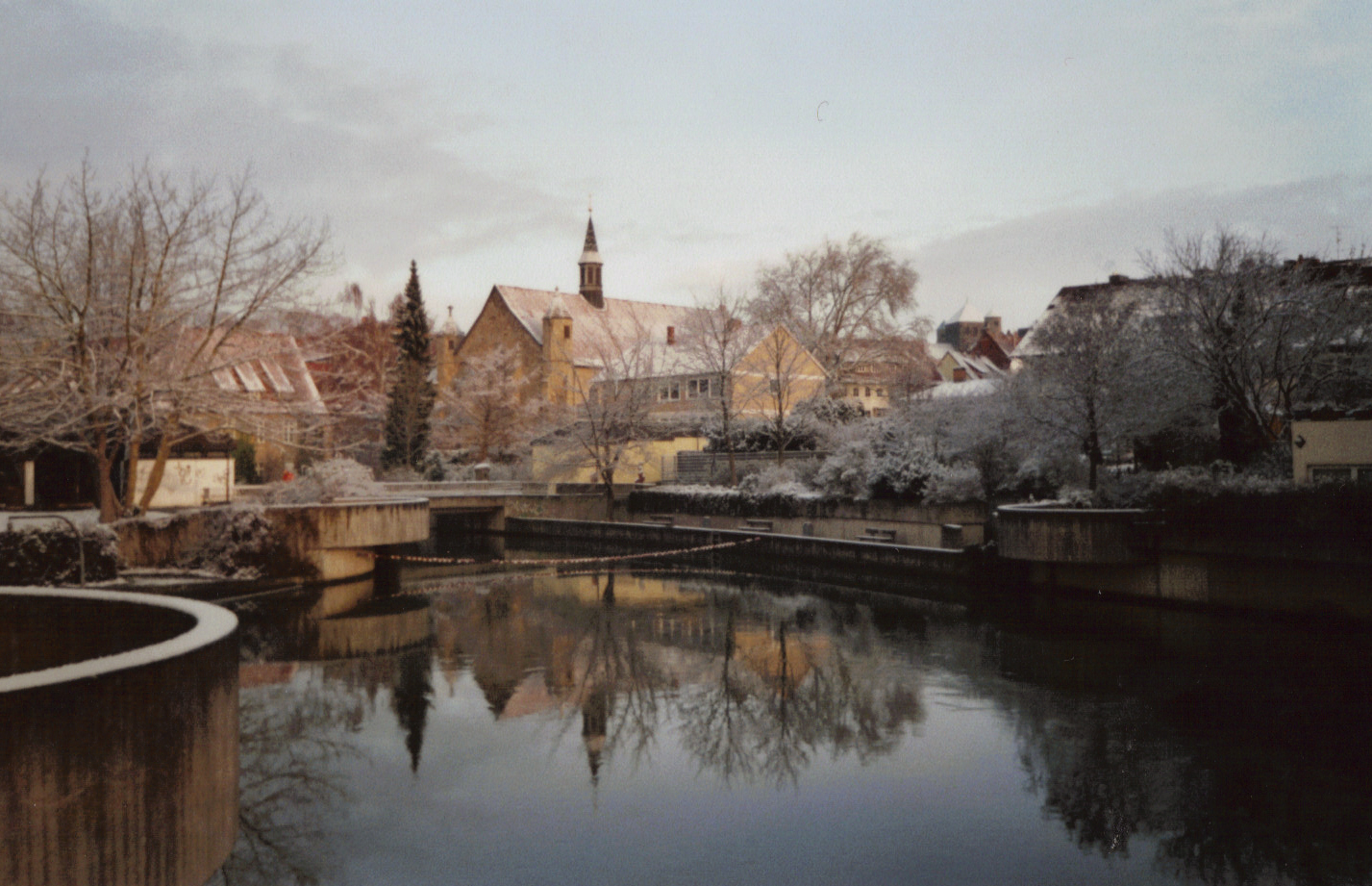 River Innerste in the centre of Hildesheim.